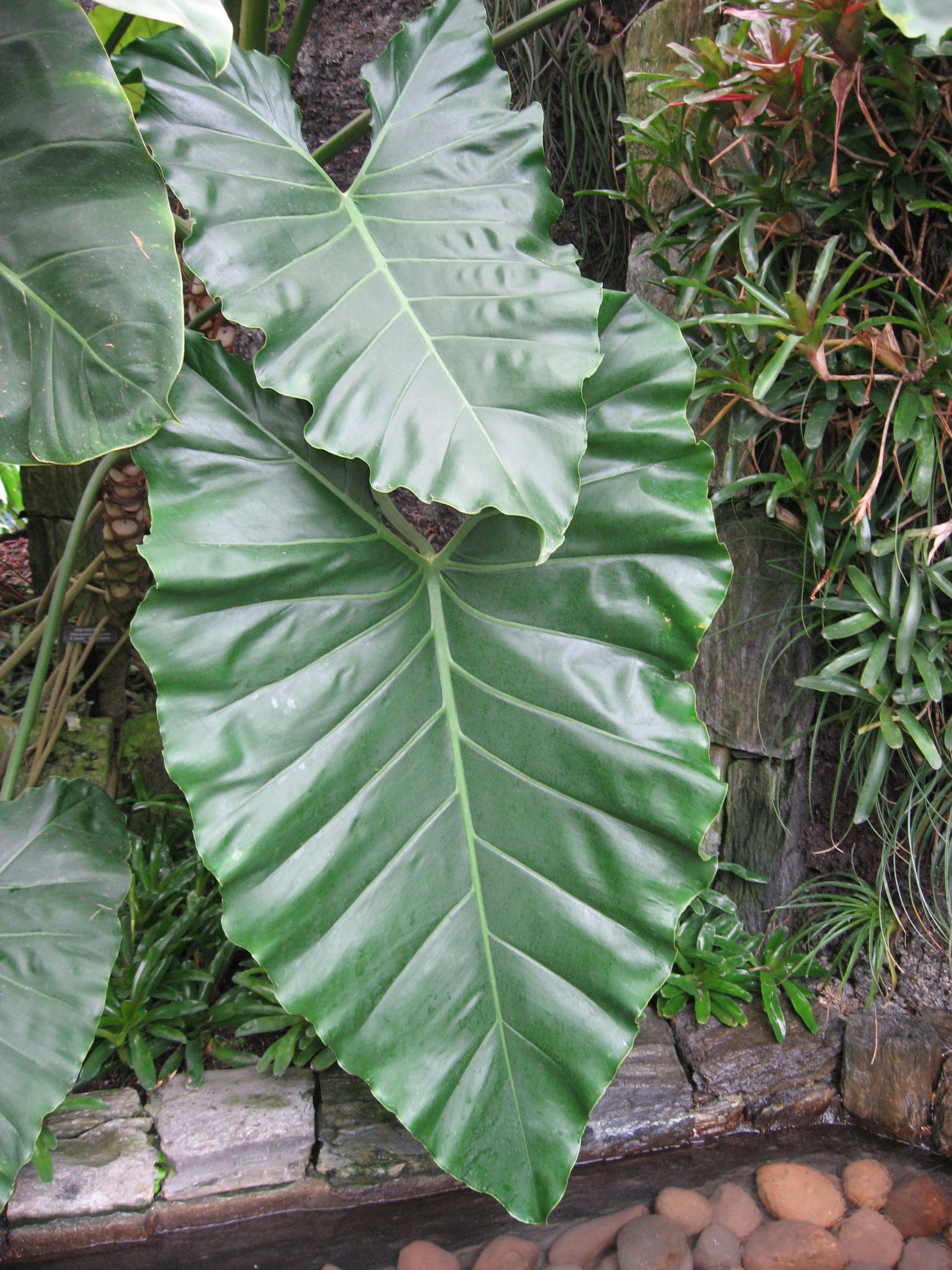 A picture of Philodendron speciosum.